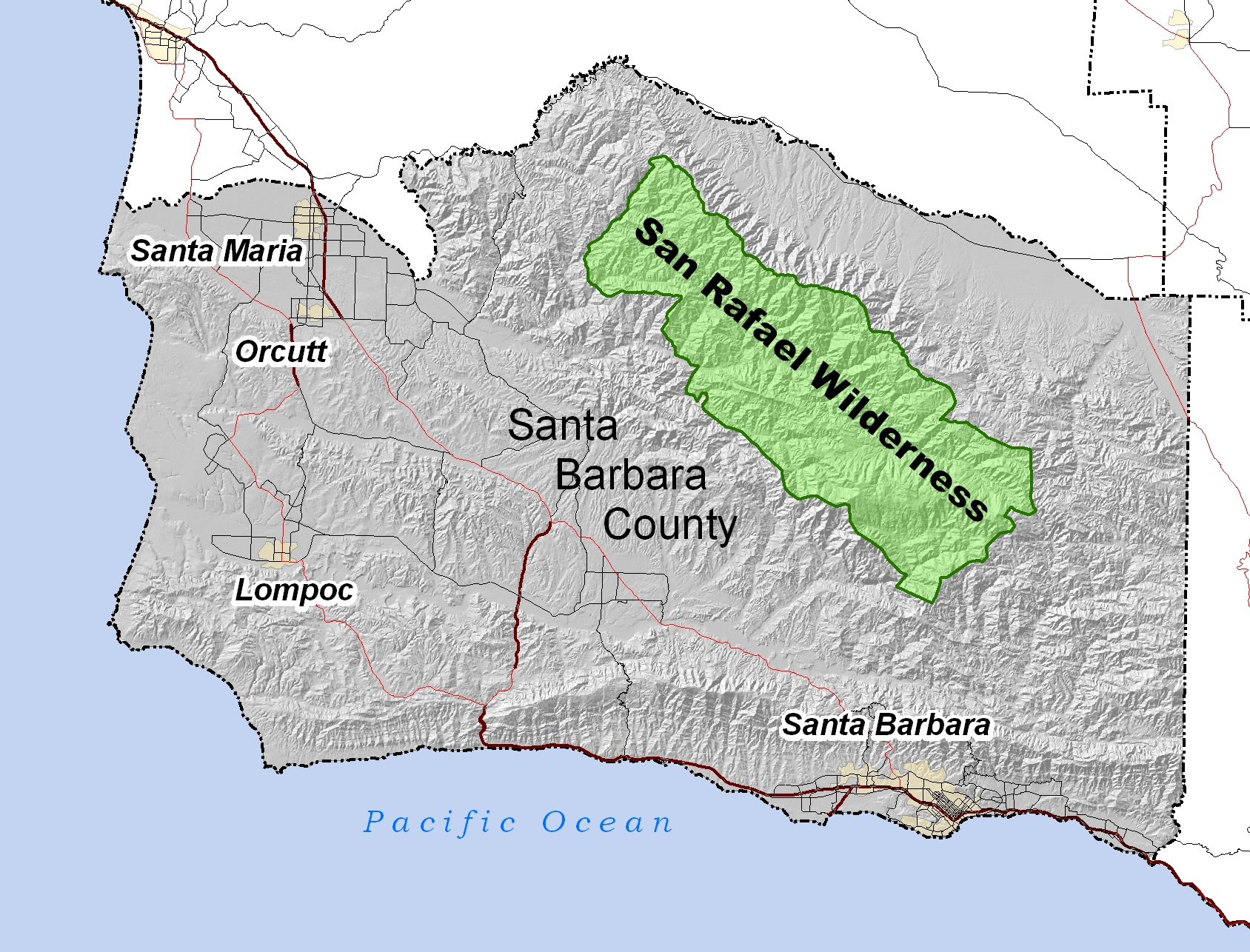 Location of San Rafael Wilderness in SB County. Made by User:Antandrus; all data shown on this map is in public domain. Made using ArcGIS 9.2. Map projection: California State Plane, Zone V, NAD 83.